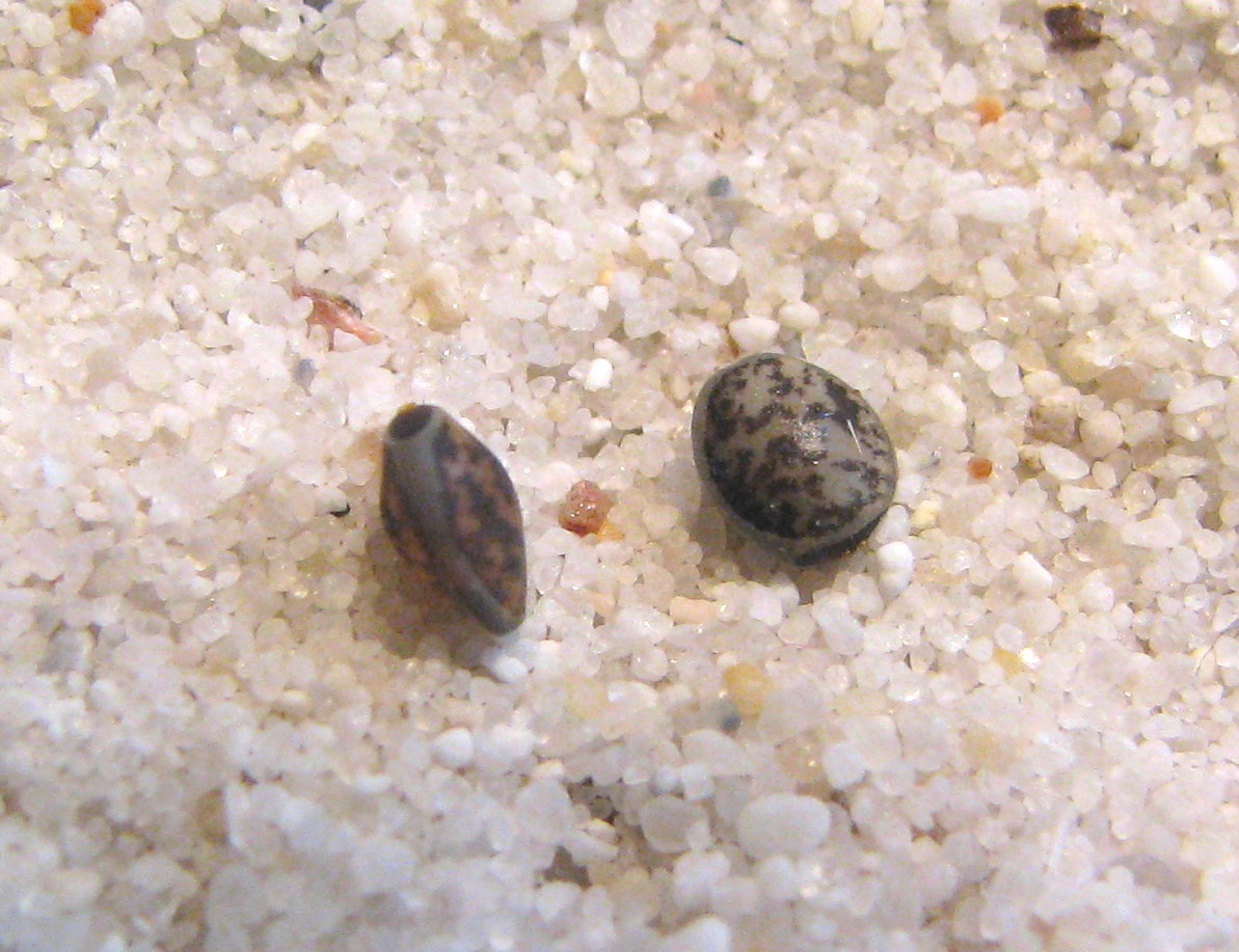 Eggs of Oreophoetes peruana